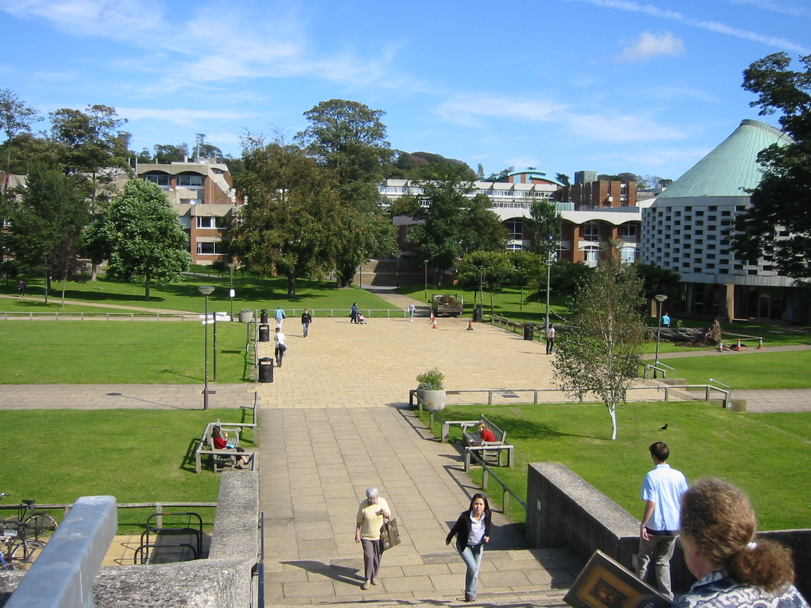 University of Sussex in front of the Library